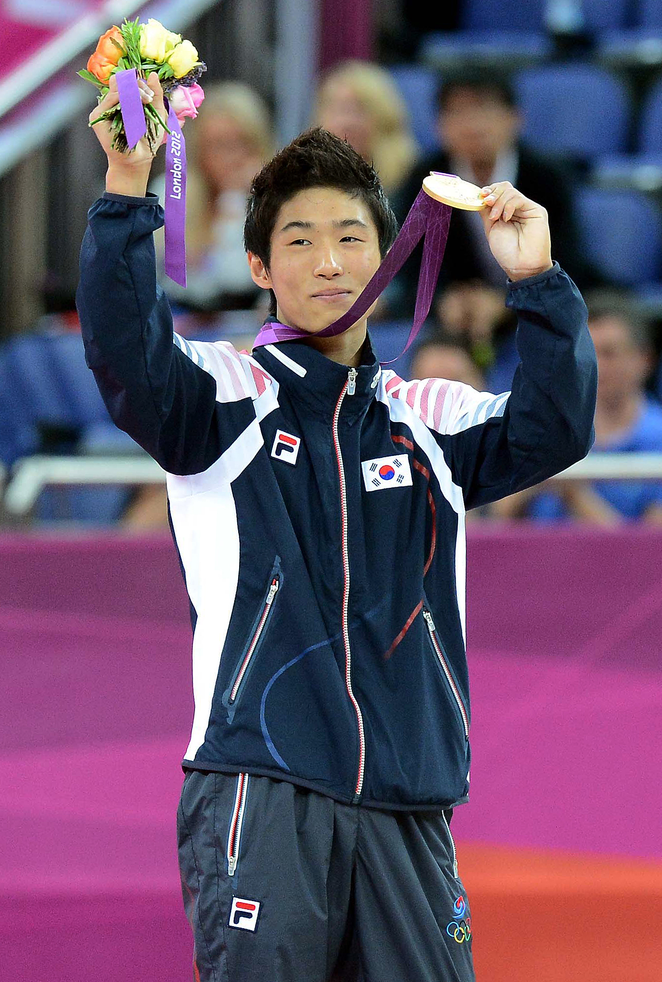 2012 London Olympic Games Korean gymnast Yang Hak-seon won the gold medal in men's vault at the London Olympics. 2012.08.07 Photo by Korean Olympic Committee Ministry of Culture, Sports and Tourism Korean Culture and Information Service 2012 런던 올림픽 남자 체조 도마 한국 대표 양학선 금메달 획득 사진제공 - 대한체육회 문화체육관광부 해외문화홍보원